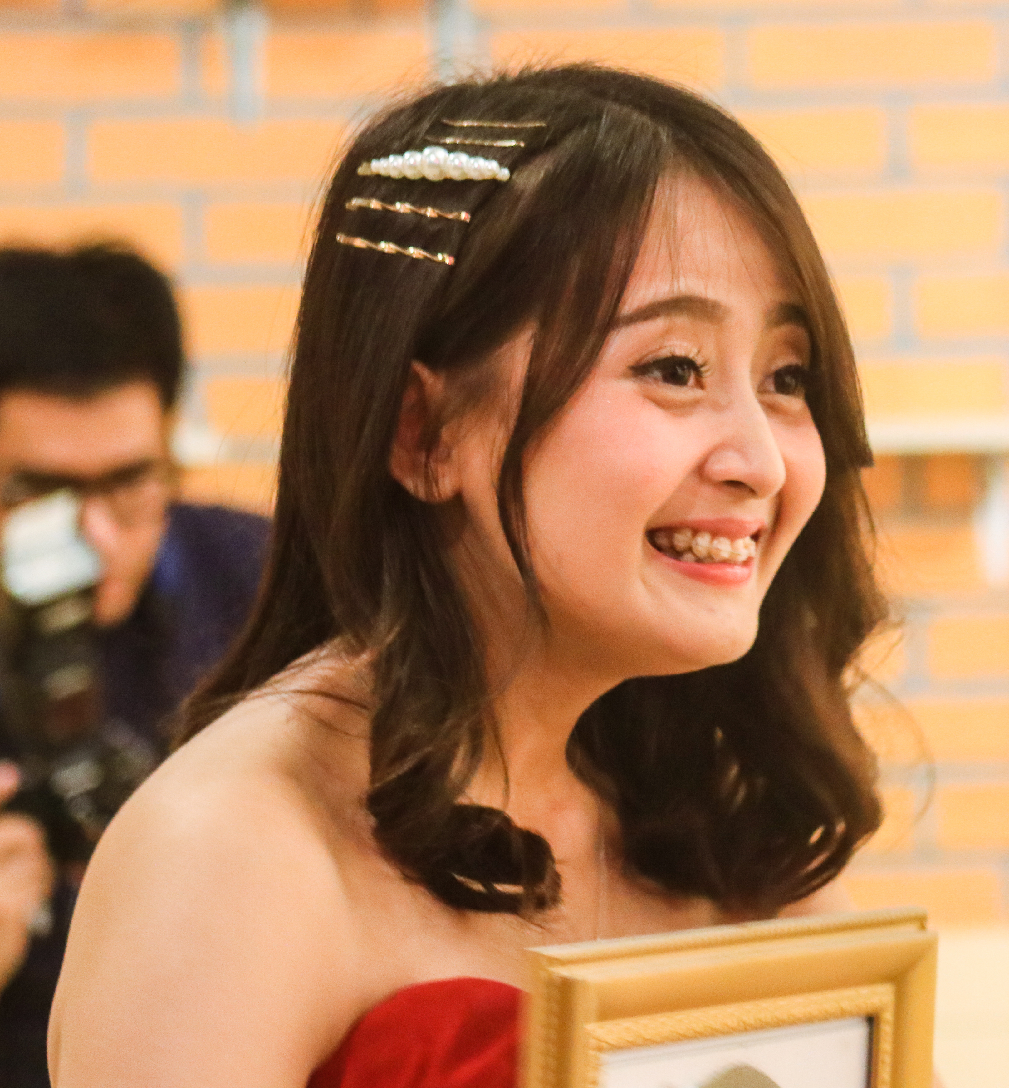 Natalia, formerly of JKT48, on 30 June 2019.